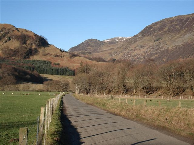 Entrance to Glen Lyon Only a tiny amount of snow is visible on the slopes of Meall nan Aighean in the distance- most unusual for the beginning of February.